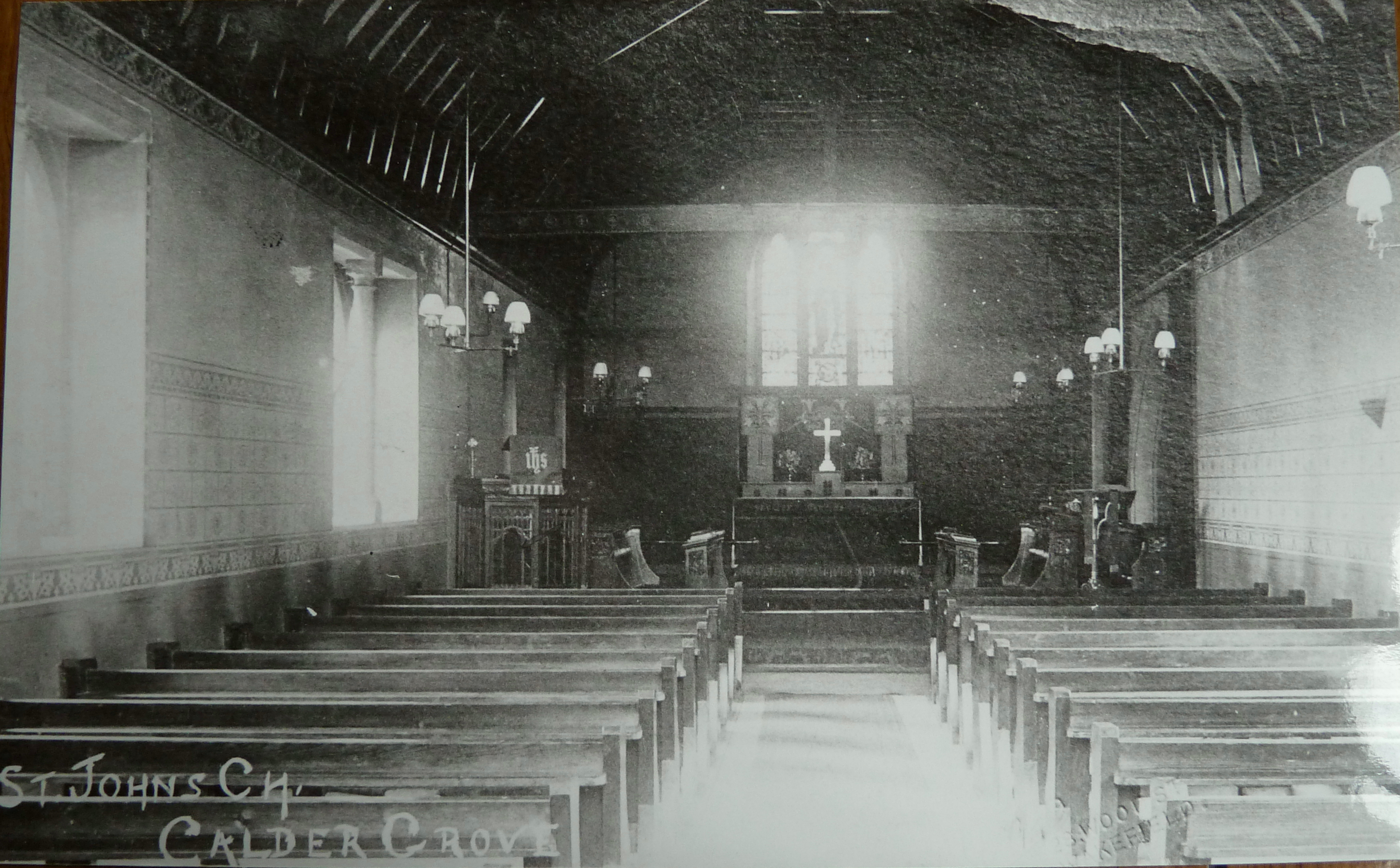 Interior of the Church of St John the Divine, Calder Grove, Wakefield, West Yorkshire, England. Designed in 1892 by William Swinden Barber. This is an old print from a glass negative, dated before 1914, looking east to the chancel. It shows the original 1892 stencil and spirit frescoes on the walls by Powell of Leeds and designed by Barber (now painted over). If you zoom in, you can see the stencils on the rood beam as well - they were still there as of 2014, although faded.